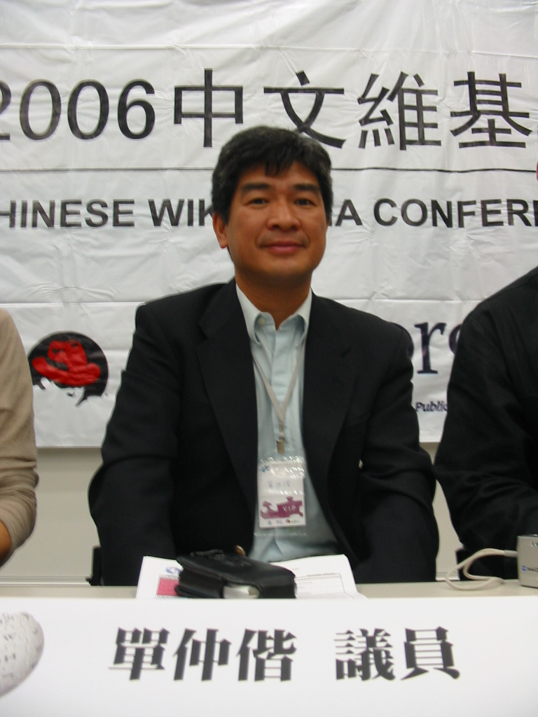 Sin Chung Kai, Member of Hong Kong Legislation Council, attends the Chinese Wikimedia Conference 2006.